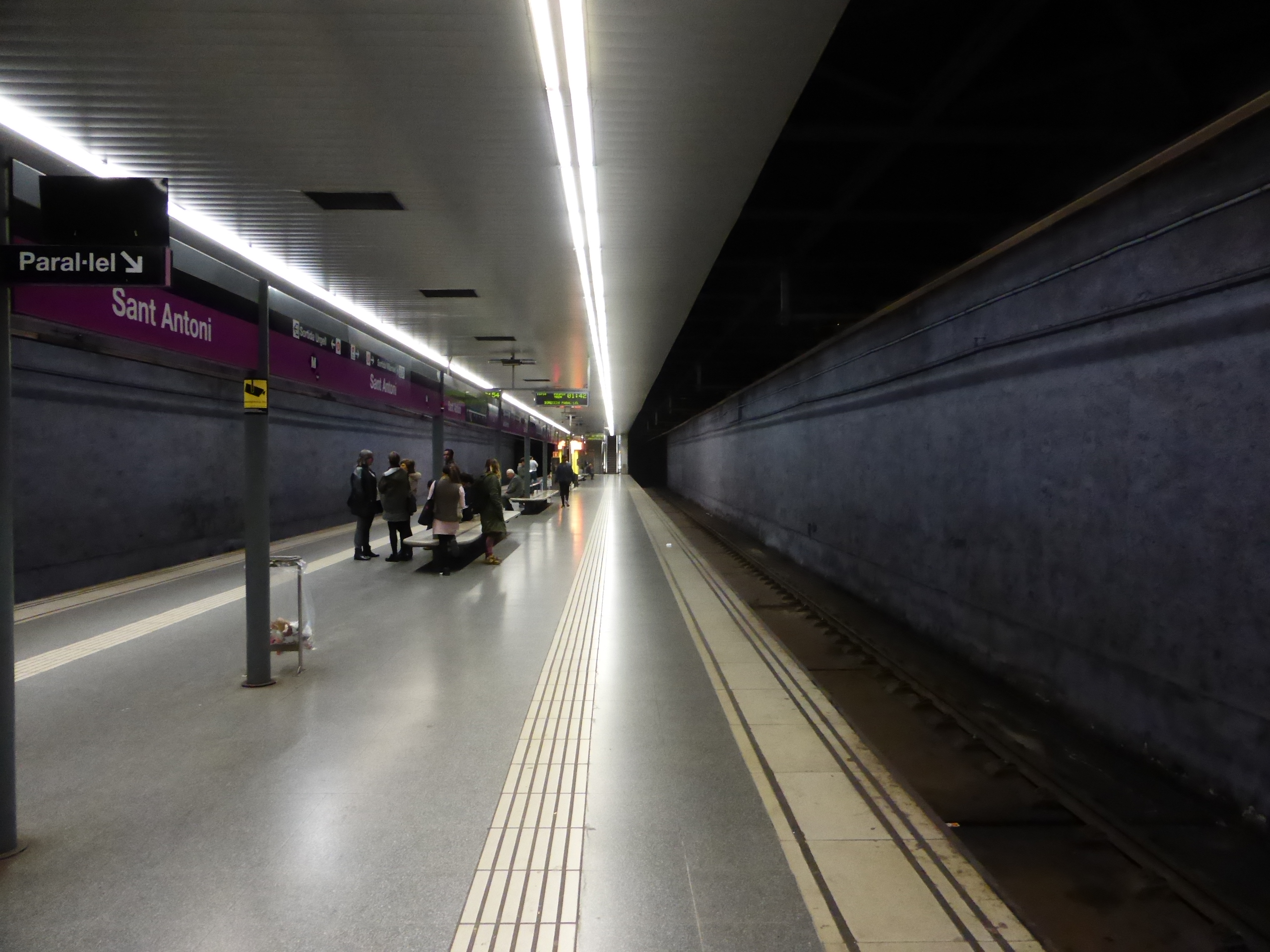 Metro in Barcelona